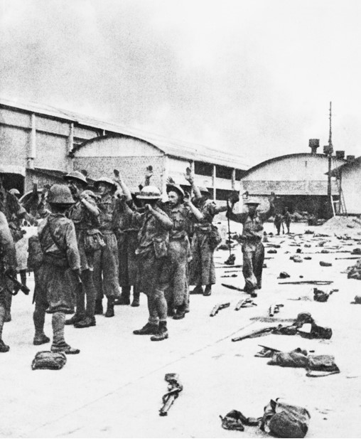 Singapore. 1942-02-15. British troops surrender to the Japanese in the city area, after the unconditional surrender of all British forces following the successful invasion of Malaya and Singapore.